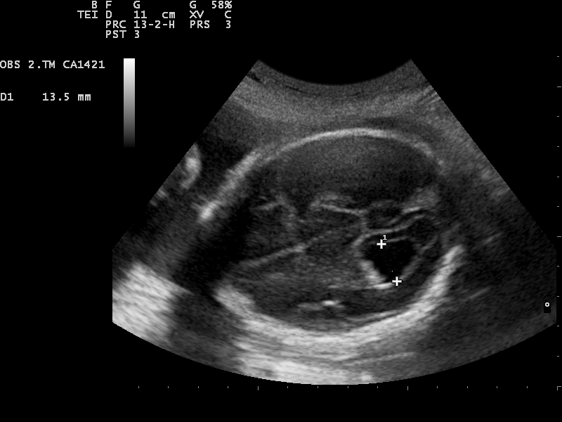 A well defined hypoechoic lesion is seen in choroid plexsus. Choroid plexsus cyst. It may regress automatically. Medical ultrasound image. Provided as-is. Please feel free to categorise, add description, crop.